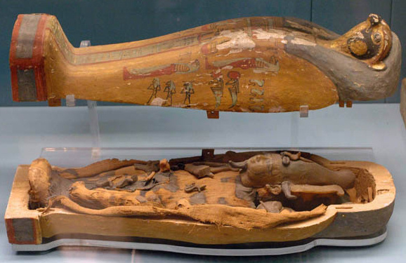 Egyptian "corn mummie" discovered in Akoris, British Museum